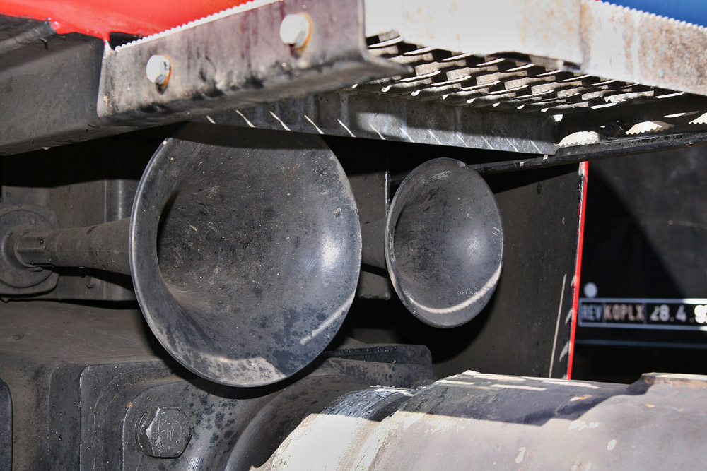 The horn of a DB class 152 locomotive